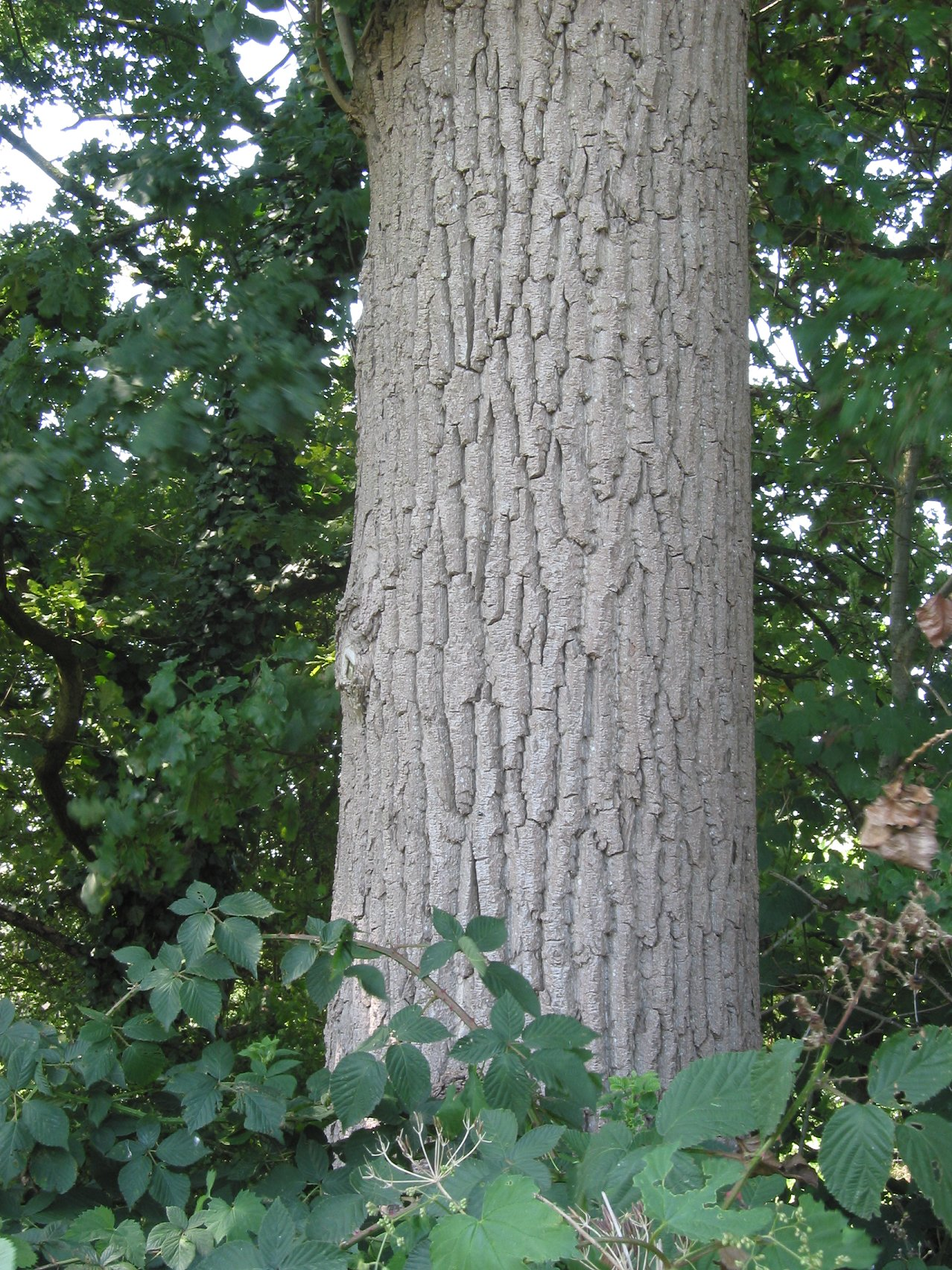 Populus canadensis, bark